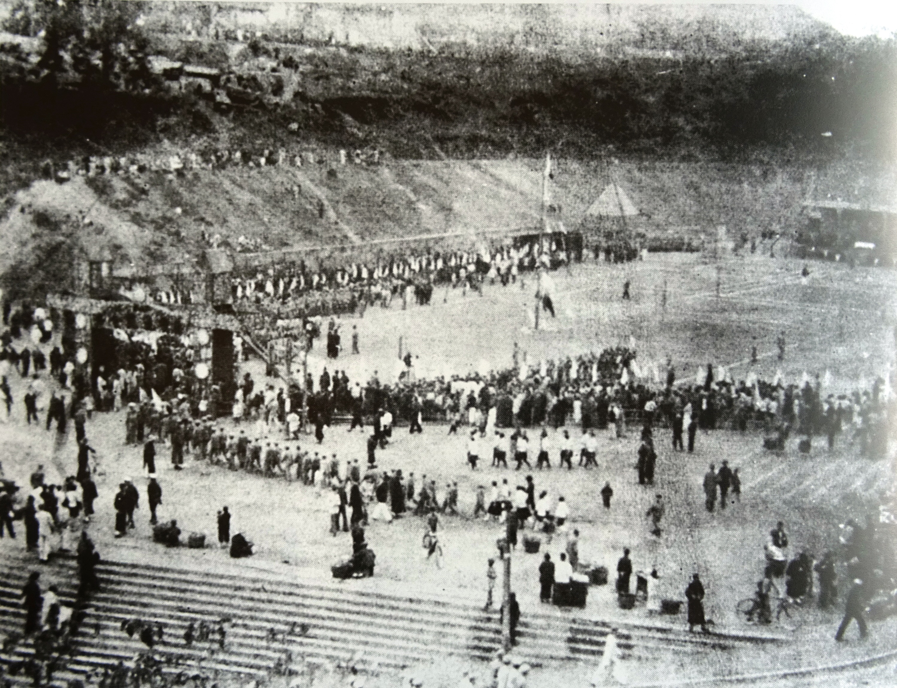 The Yut Sau Shan pubic stadium of Canton，China in early 1930s.